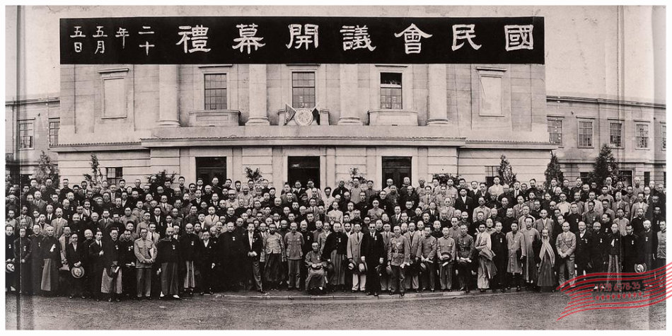 The opening ceremony of National Council, Republic of China. May 5, 1931.